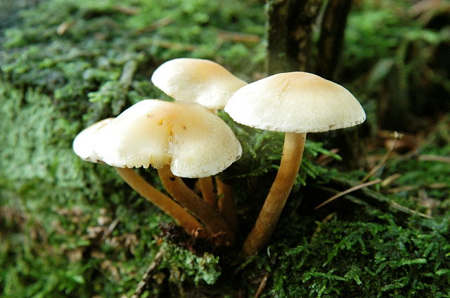 Gymnopus dryophilus s. l. from Commanster, Belgium. The determination of the species shown in this picture has been verified.